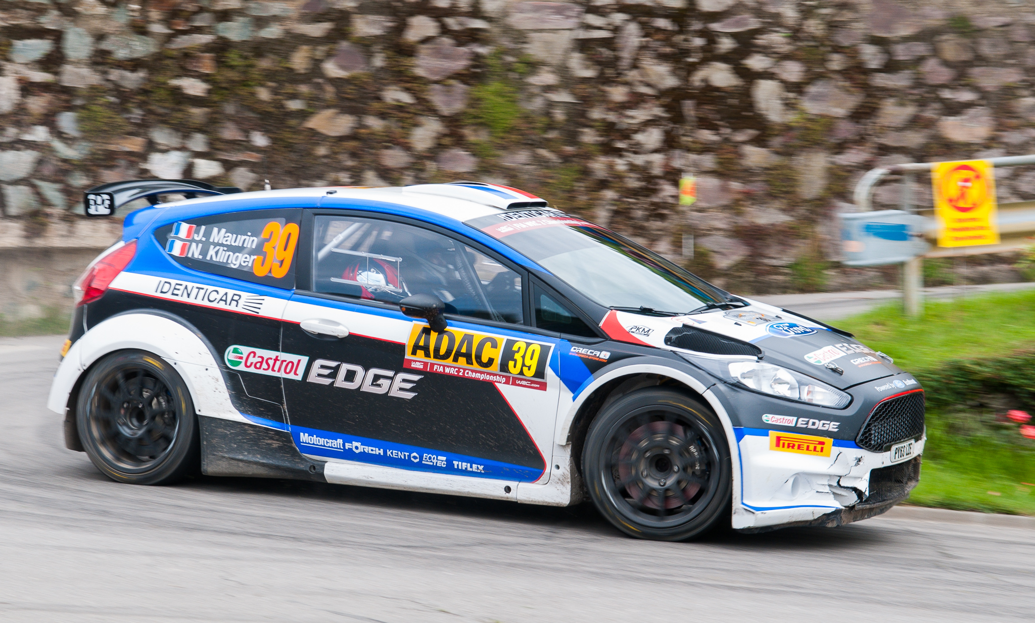 ADAC Rallye Deutschland 2014,FIA,FIA World Rally Championship,Ford Fiesta R5,Julien Maurin,Moselland 1,Motorsport,Nicolas Klinger,Rally,Rallye,SS 3,WP 3,WRC 2